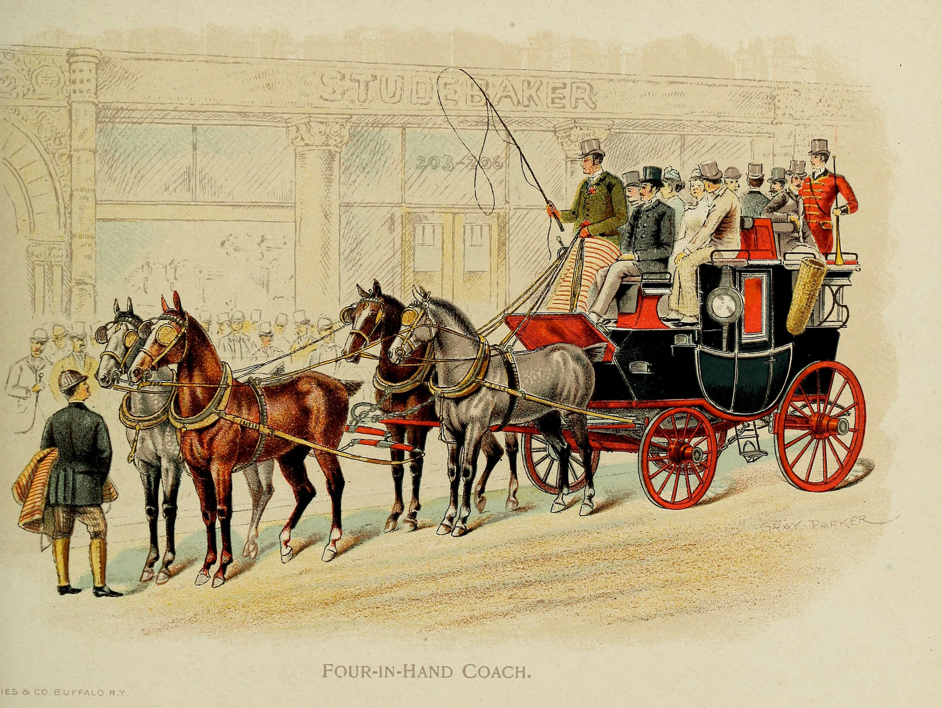 A Studebaker Four-in-Hand Coach, from the Studebaker Souvenir published in 1893